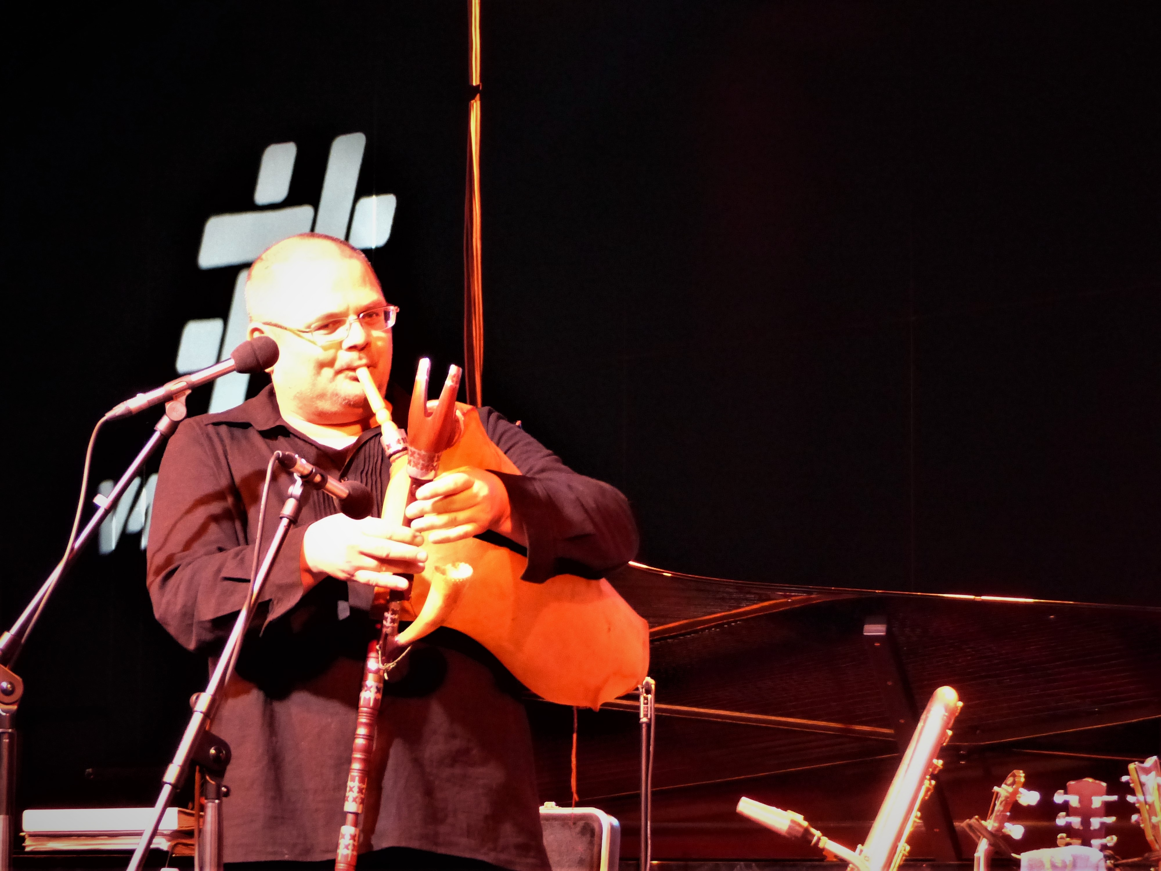 Szokolay Dongó Balázs. Várkert Bazár, Rendezvényterem. Budapest. V4 Concerts.